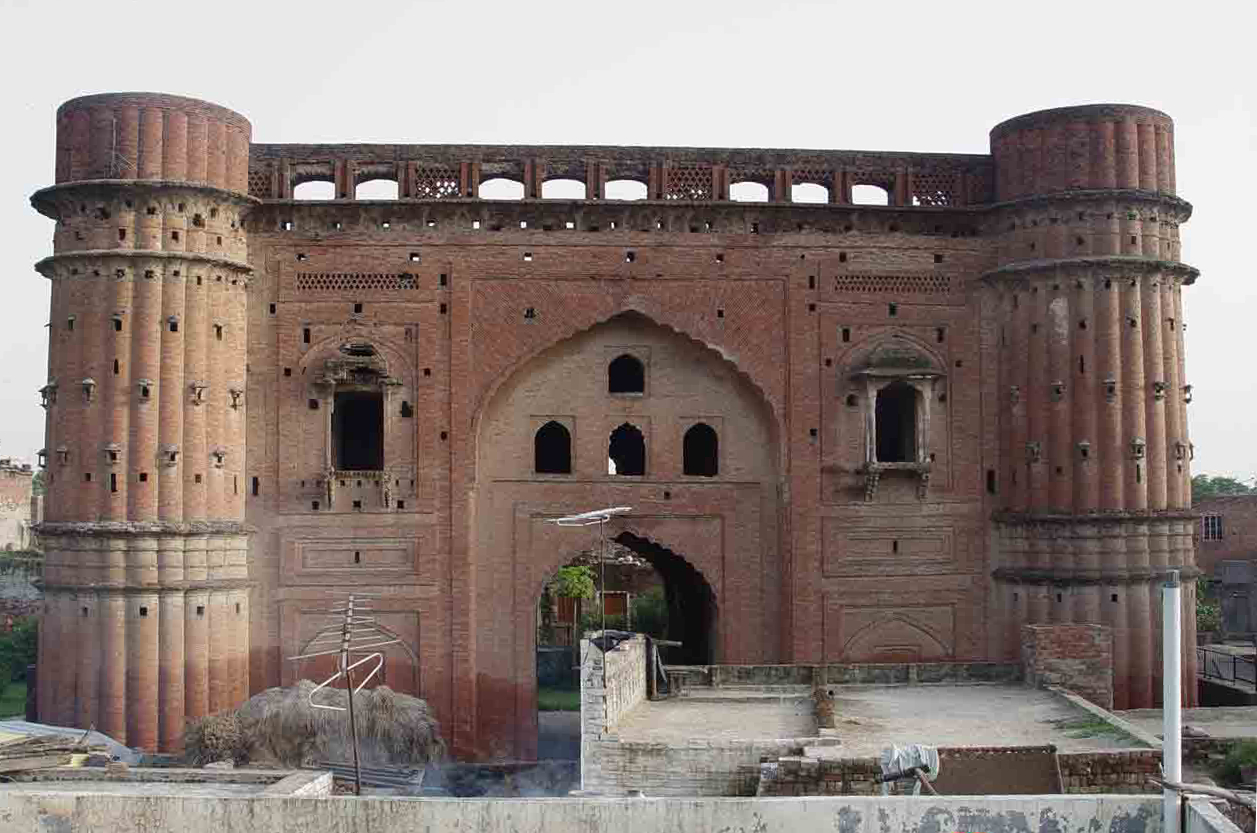 Gateways of Old Mughal Sarai